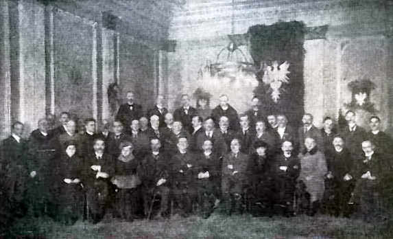 Naczelna Rada Ludowa w Poznaniu, local Polish parliament 1918-1919